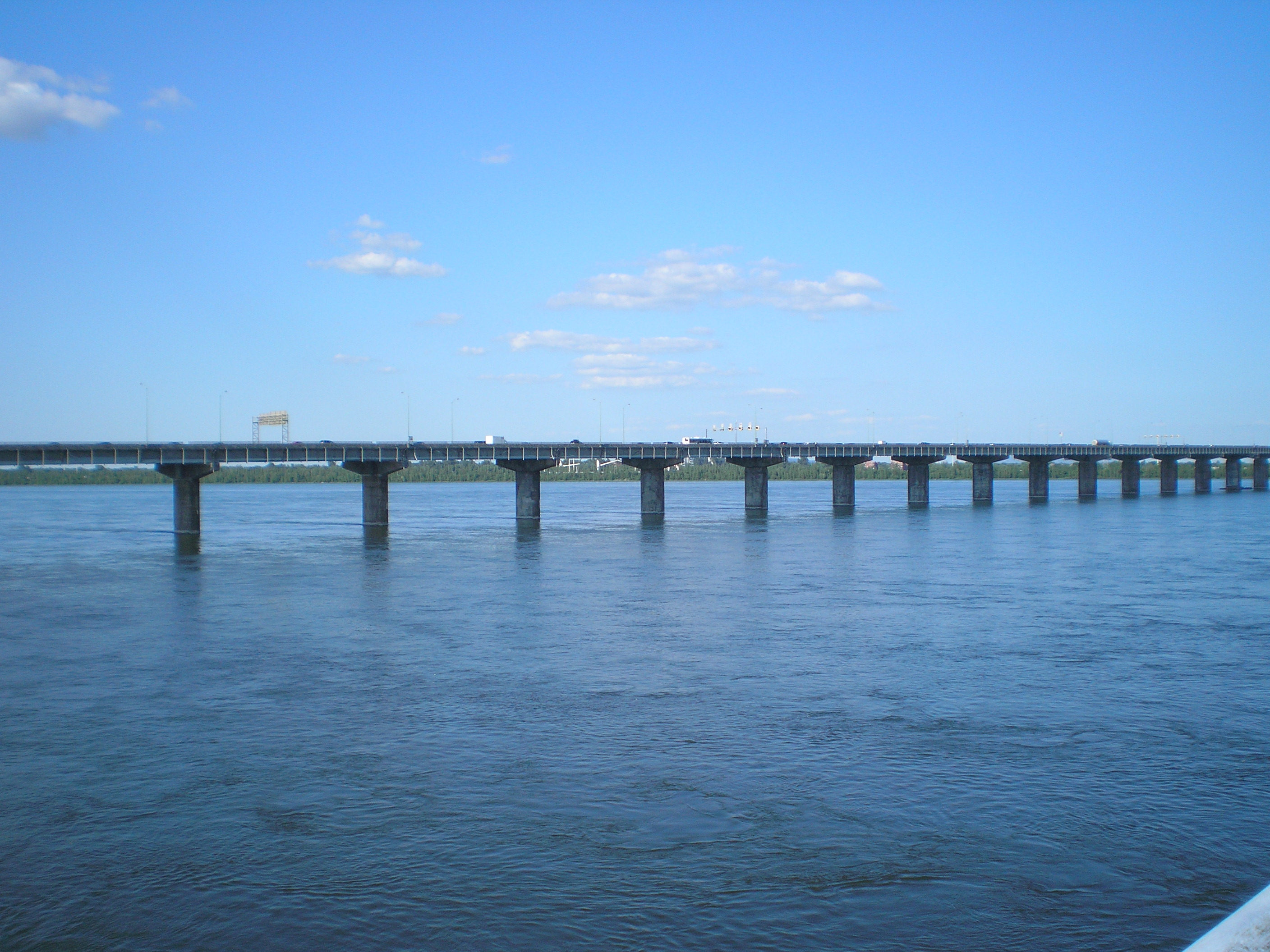 The portion of Champlain Bridge over the Saint Lawrence proper.